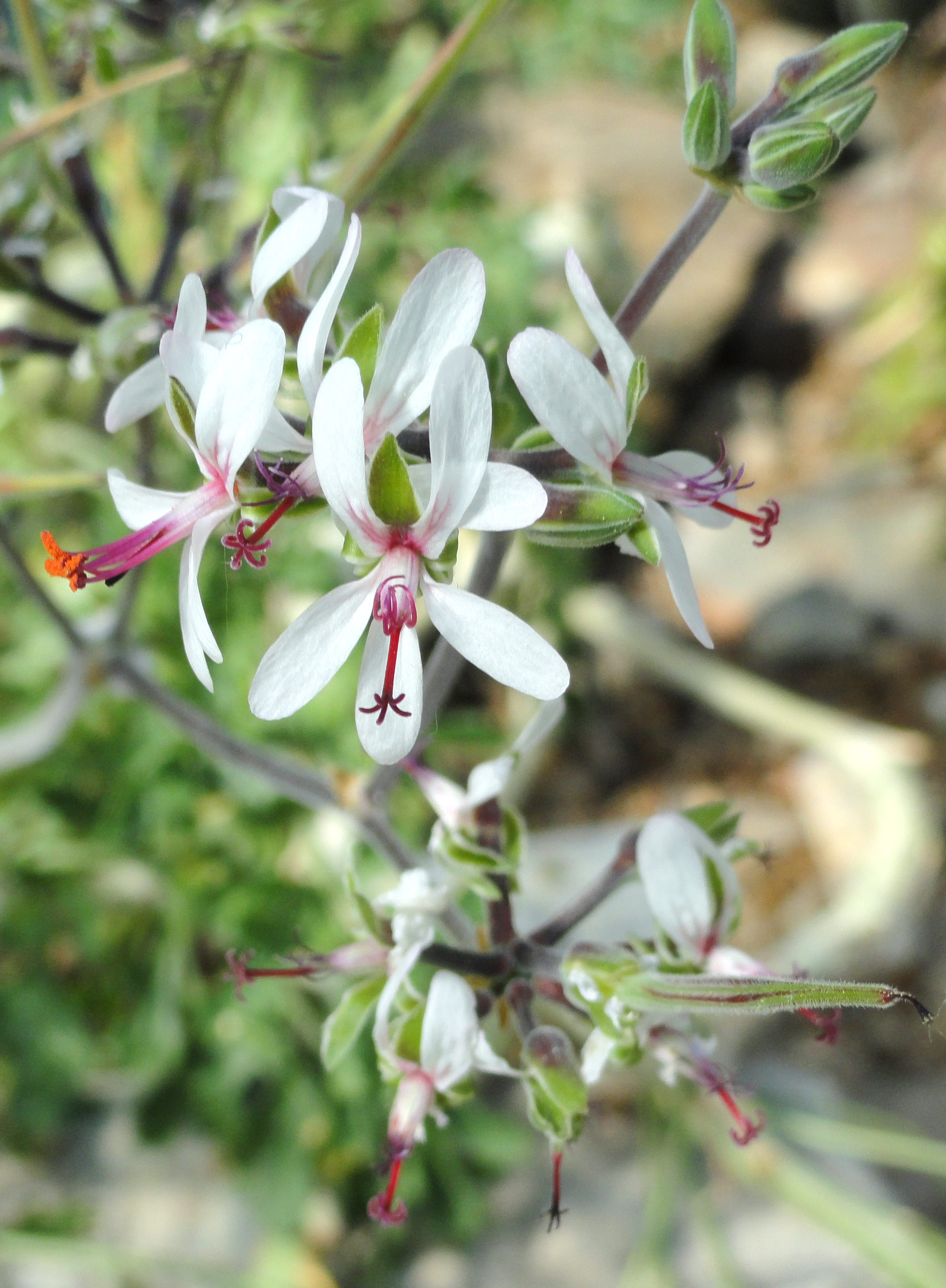 Pelargonium polycephalum specimen in the Botanischer Garten München-Nymphenburg, Munich, Germany.